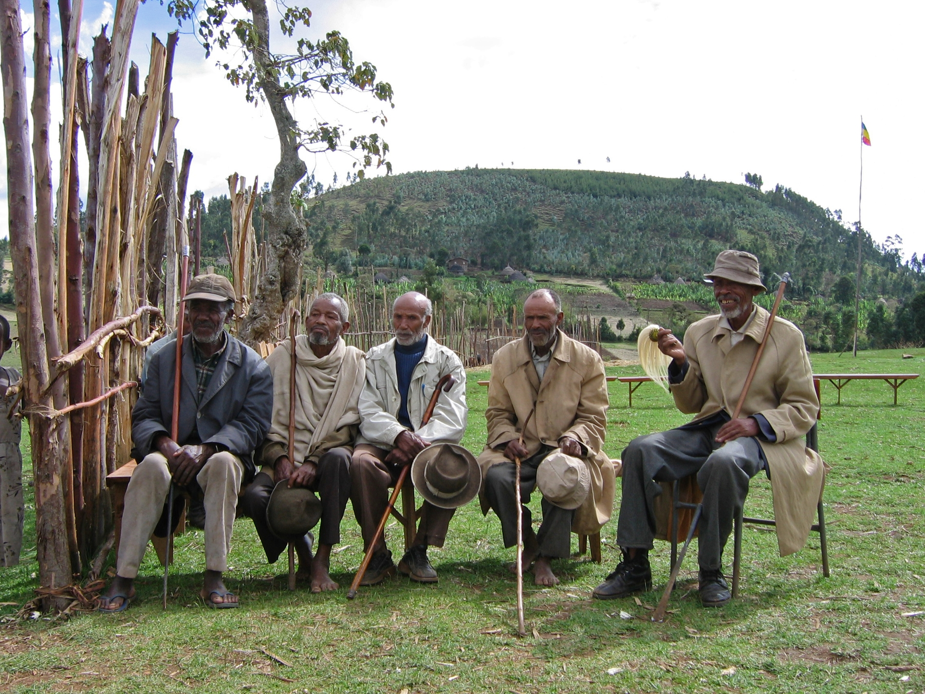 Village elders participate in a training for rural health care workers in Ethiopia. Photo Credit: S. Kalscheur/USAID.